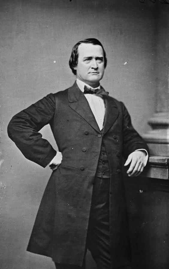 Arthur P. Hayne, a United States Senator from South Carolina.